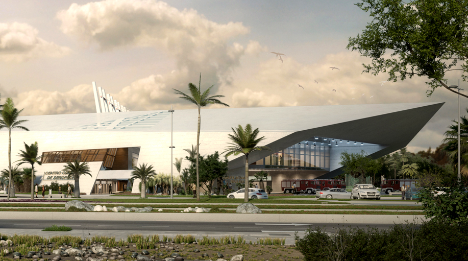 Main building access in "wood & white" materials